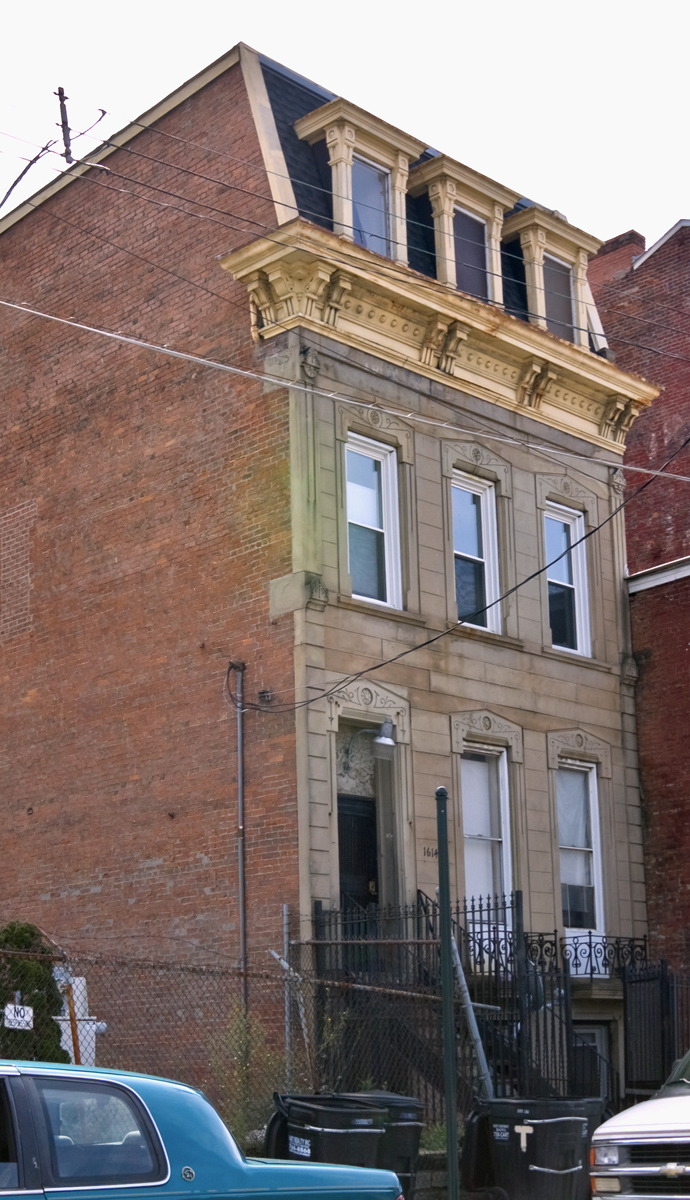 S. C. Mayer House in Cincinnati, OH. Photo by Greg Hume